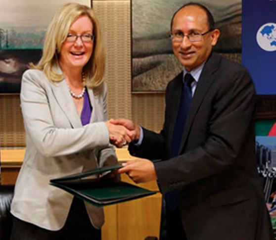 Cropped photo of Lisa Paul (left) and Peter Varghese (right) signing the New Colombo Plan Memorandum of Understanding in Canberra in April 2014